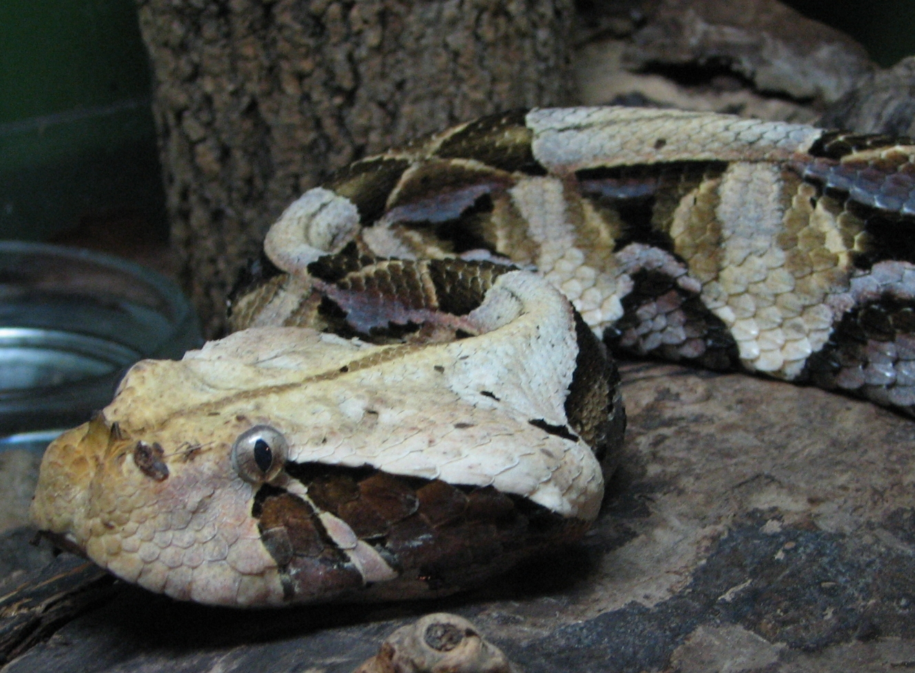 Bitis gabonica Gaboon Viper